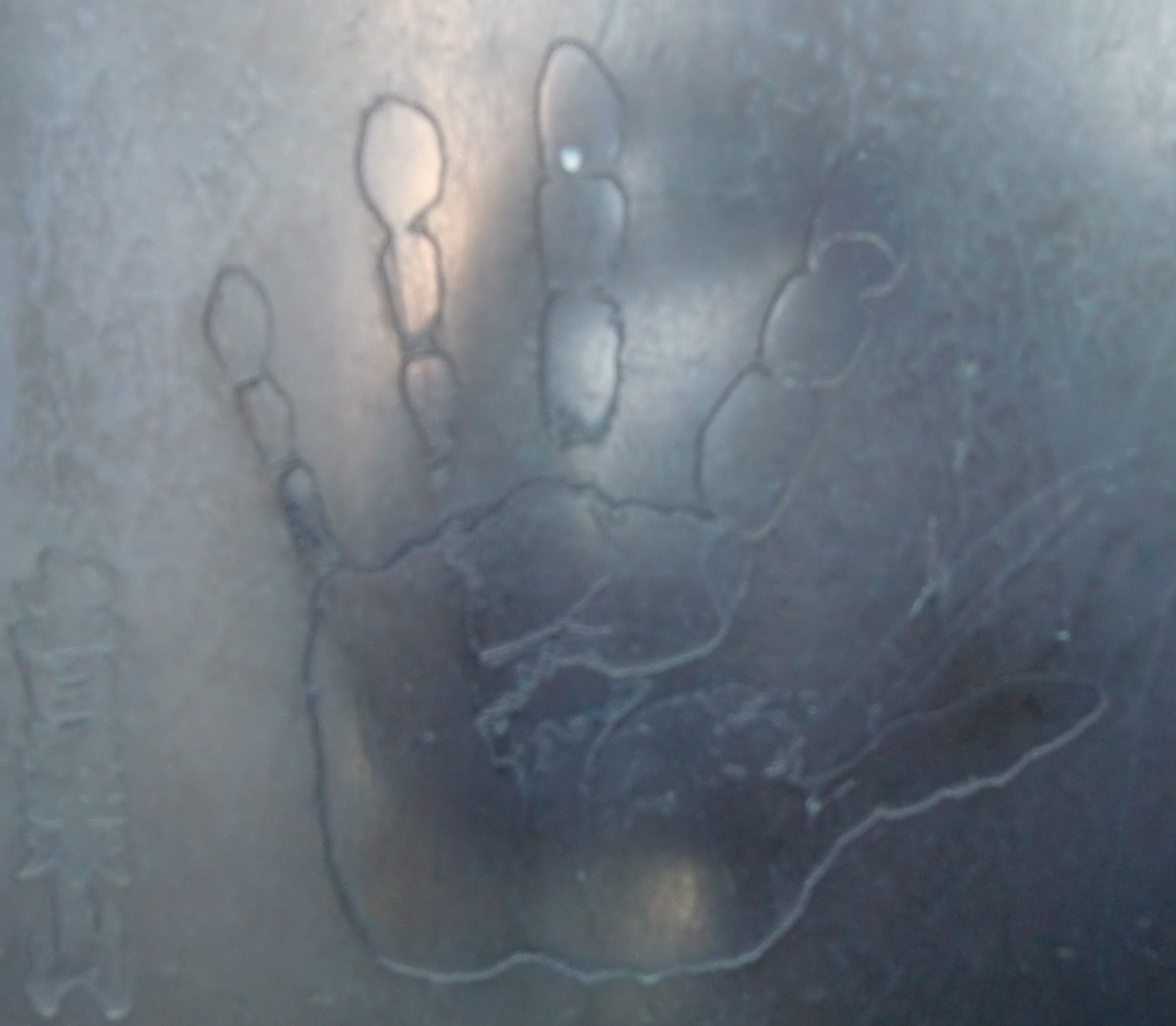 photo from public monument in Ryogoku area